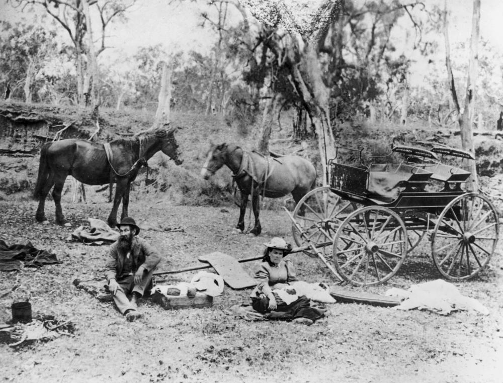 Lunch in the bush, near Warwick, ca.1893 Man and woman stopping for a meal and a billy of tea. The horses have been unhitched from the double buggy. Travel in Australia during the late 1800s would have been very difficult. The double buggy was advertised as 'a must for squatters' as it was admirably adapted to travelling over huge logs and rutted ground.